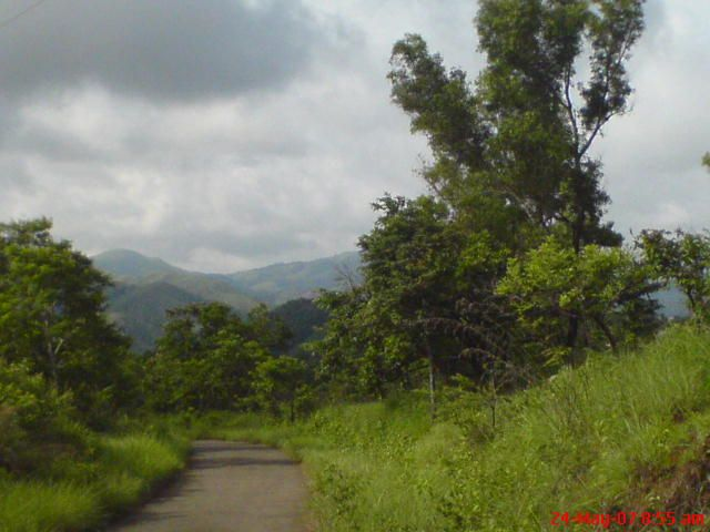 Painavu road